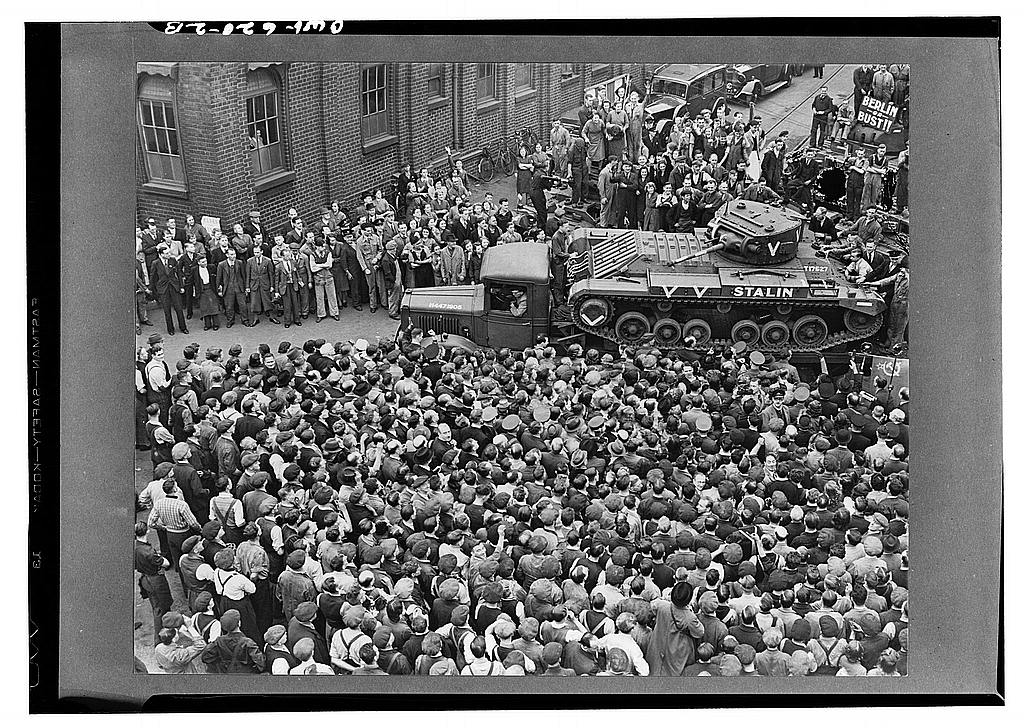 Crowds of people and a guard of honor of tanks, meeting M. Maisky, Soviet ambassador, and members of the Rusian military mission when they arrived at a tank factory somewhere in Great Britain(?), where the week's tank production is for Russia, showing a Valentine model, which had just been christened by Madame Maisky